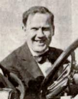 Actor Douglas Fairbanks and Thomas J. Geraghty, the screenwriter for When the Clouds Roll By (1919), on page 84 of the January 24, 1920 Exhibitors Herald. The caption humorously states that this is the only known photograph of Geraghty.